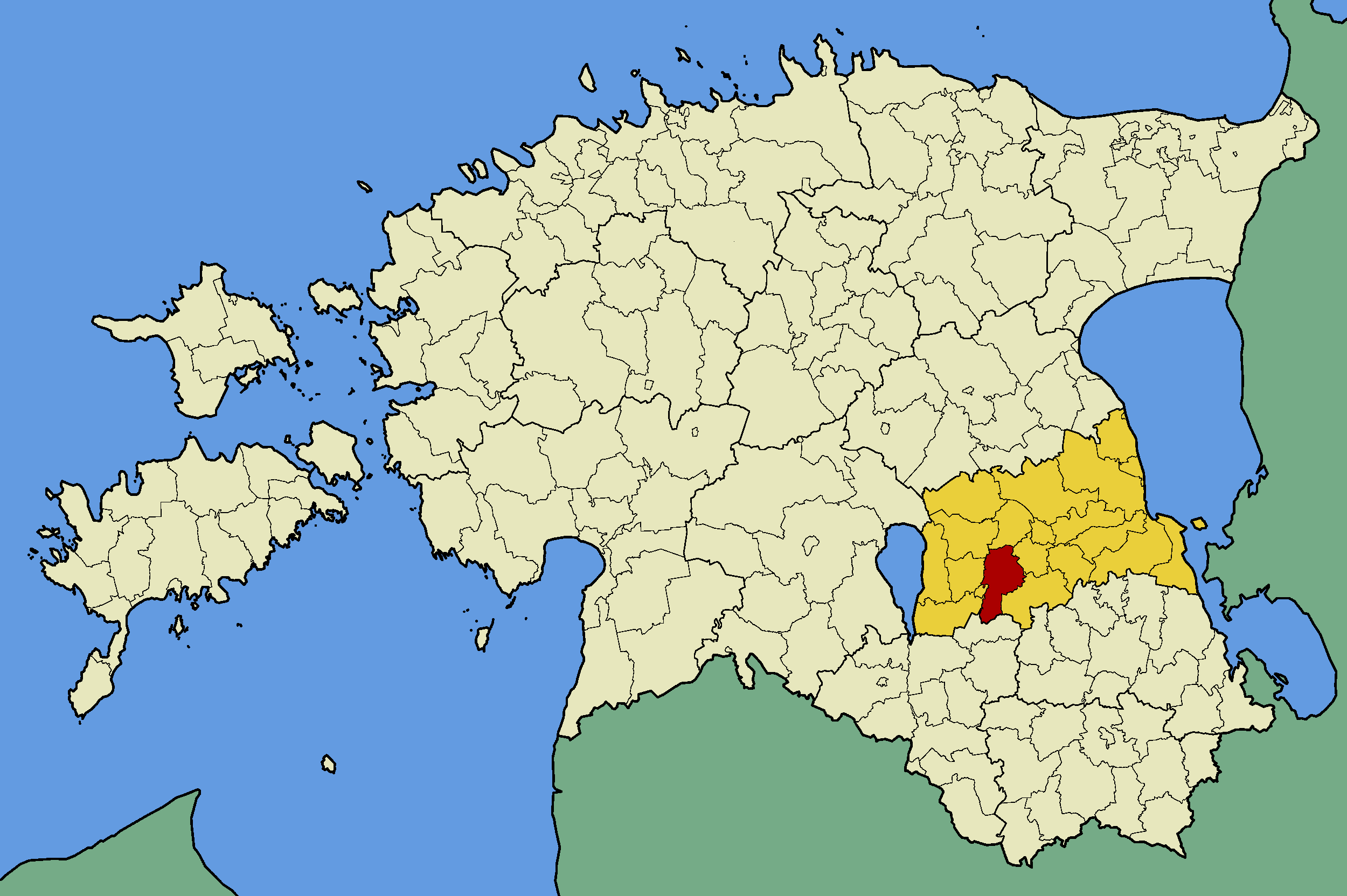 Map of Estonia with borders of municipalities (parishes). Tartu county and Nõo municipality emphasized.